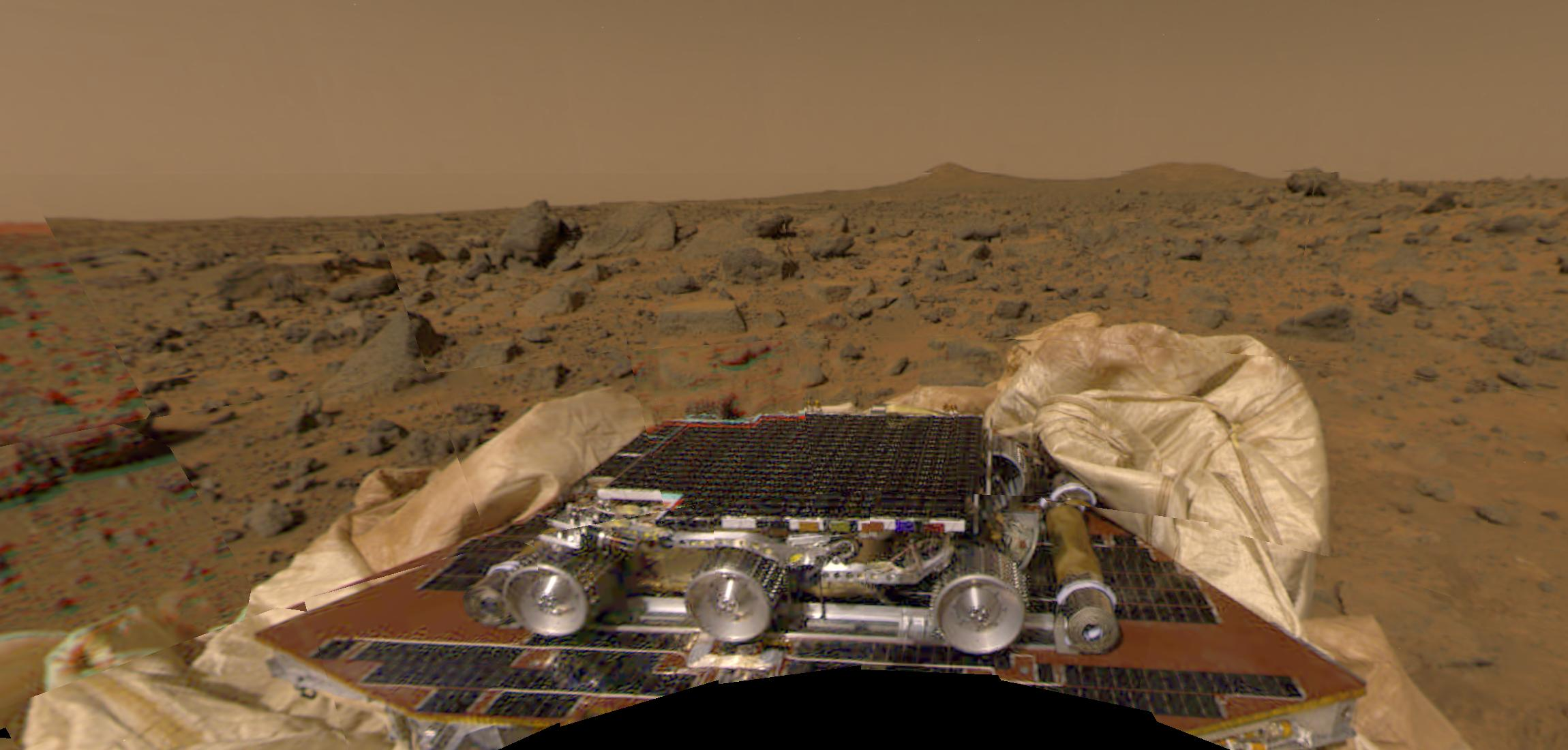 This picture from Mars Pathfinder was taken after the spacecraft landed on July 4, 1997, and shows the Sojourner rover perched on one of three solar panels.